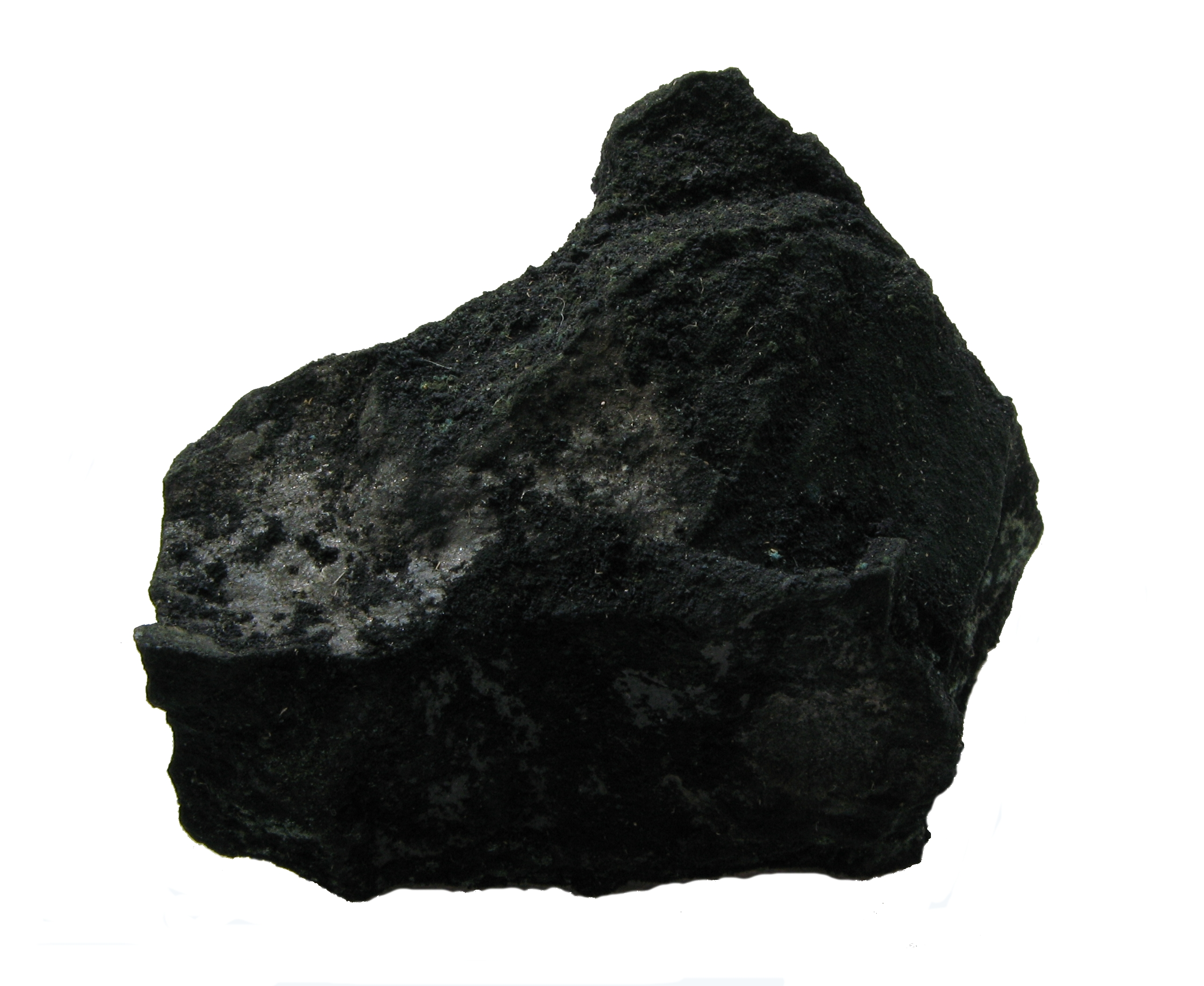 Patrónite Locality: Minas Ragra, Peru Exposed in the Mineralogical Museum of University Bonn, Germany